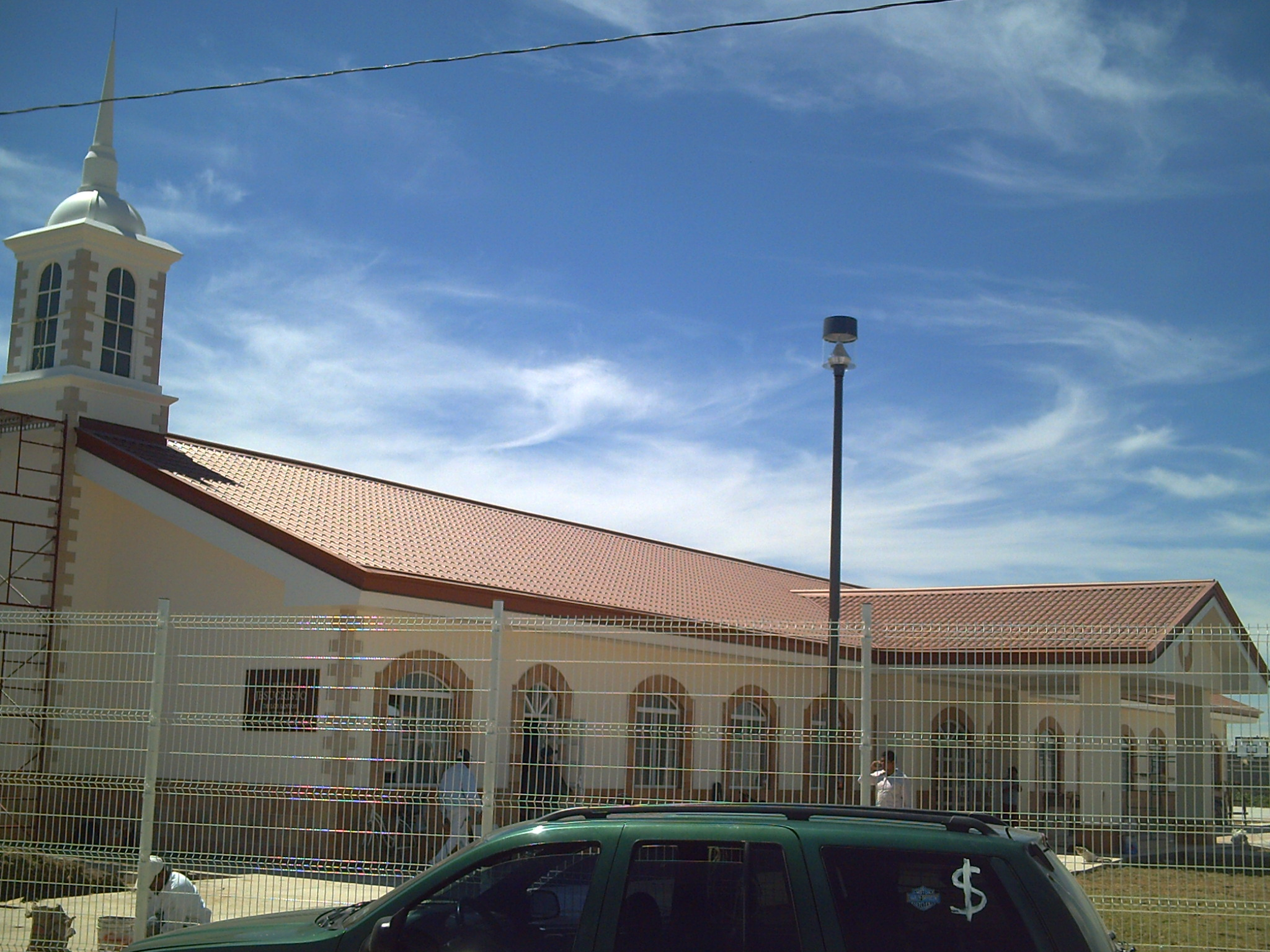 A meetinghouse of The Church of Jesus Christ of Latter-day Saints, San Francisco del Rincón, Guanajuato, Mexico.